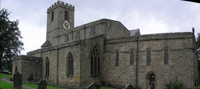 St Agatha's parish church, Gilling West, North Yorkshire, seen from the southeast